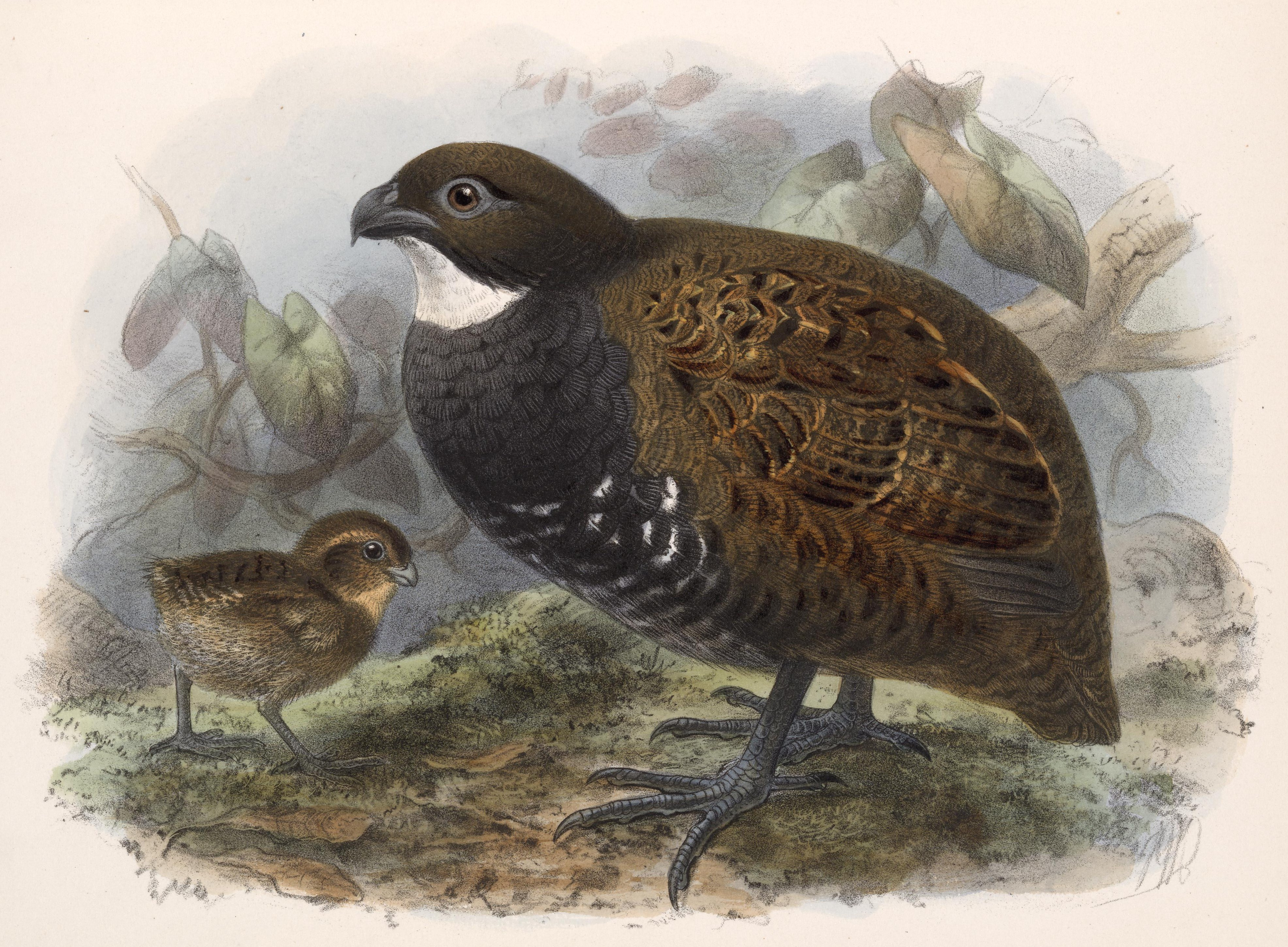 « Odontophorus leucolaemus » = Odontophorus leucolaemus (Black-breasted Wood Quail)